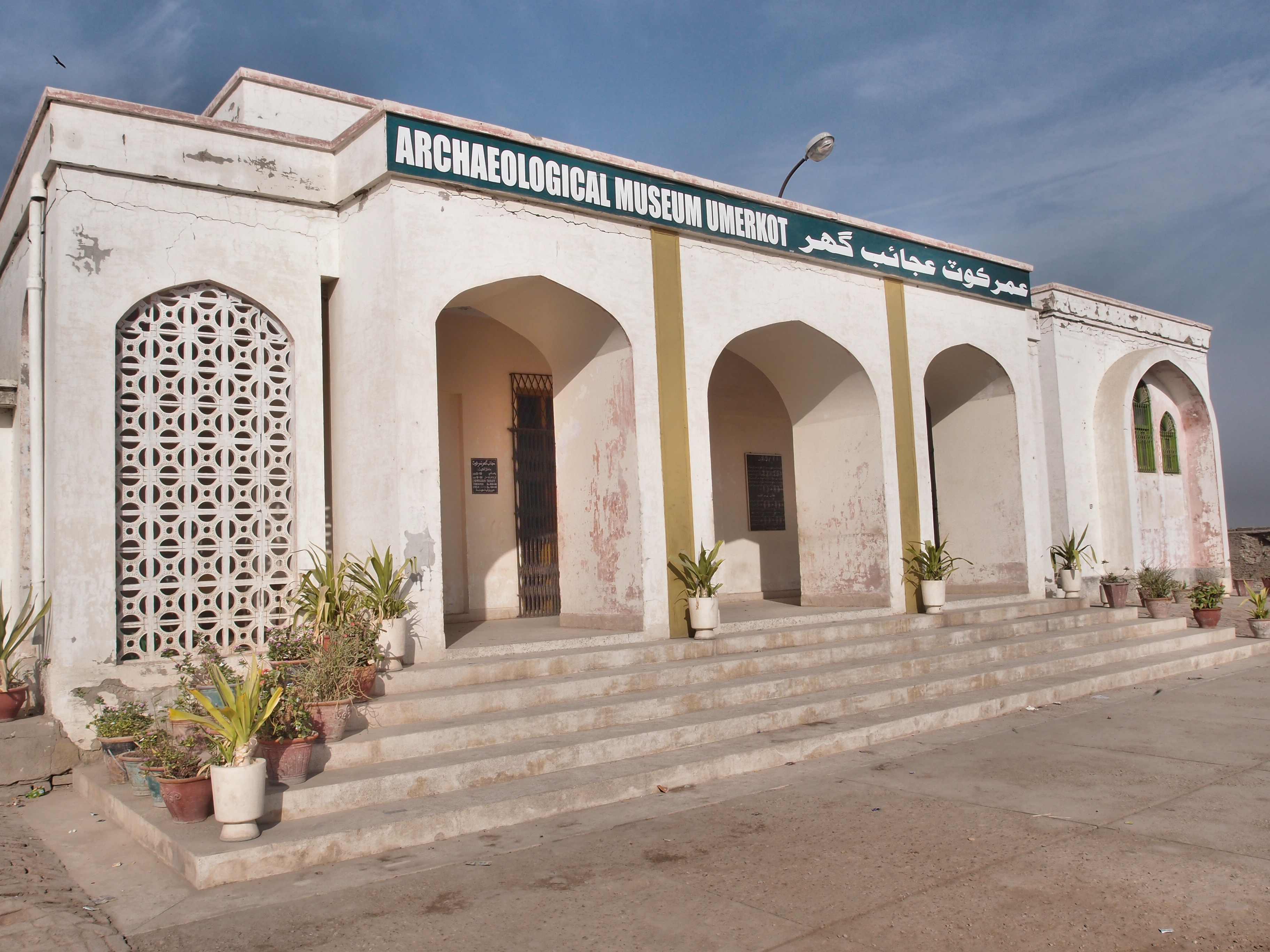 Umarkot museum view